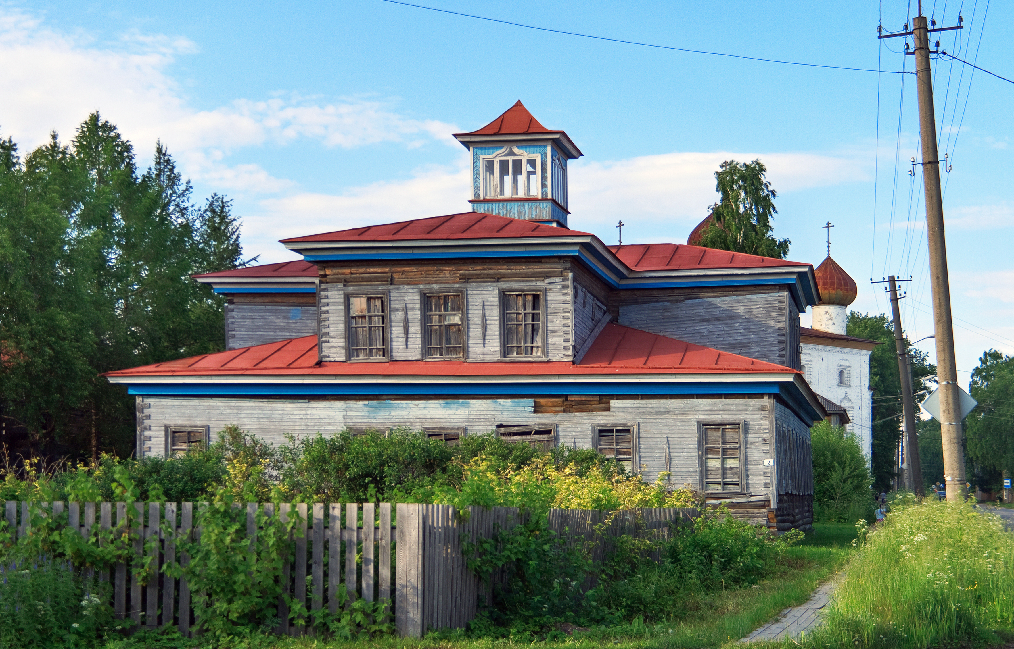 Wagner house, Oktyabrsky prospekt 31, Kargopol, Arkhangelsk Oblast, Russia